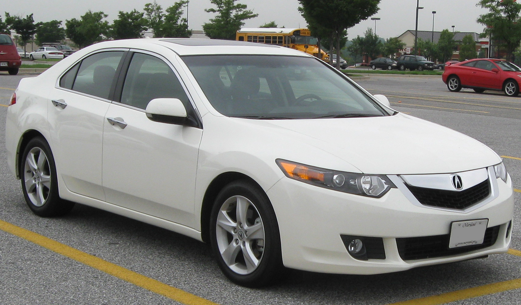 2009-2010 Acura TSX photographed in Laurel, Maryland, USA.